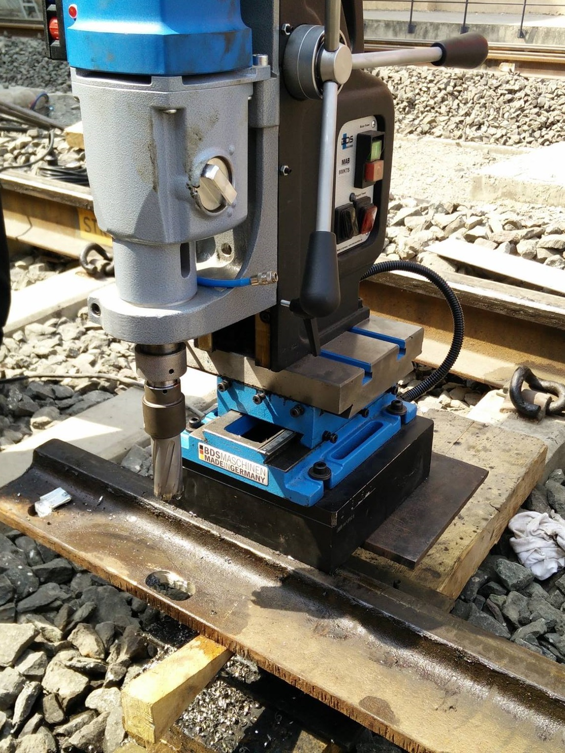 MAB 825 KTS Keyslot milling machine for railway track manufactured by BDS Maschinen GmbH (Germany)